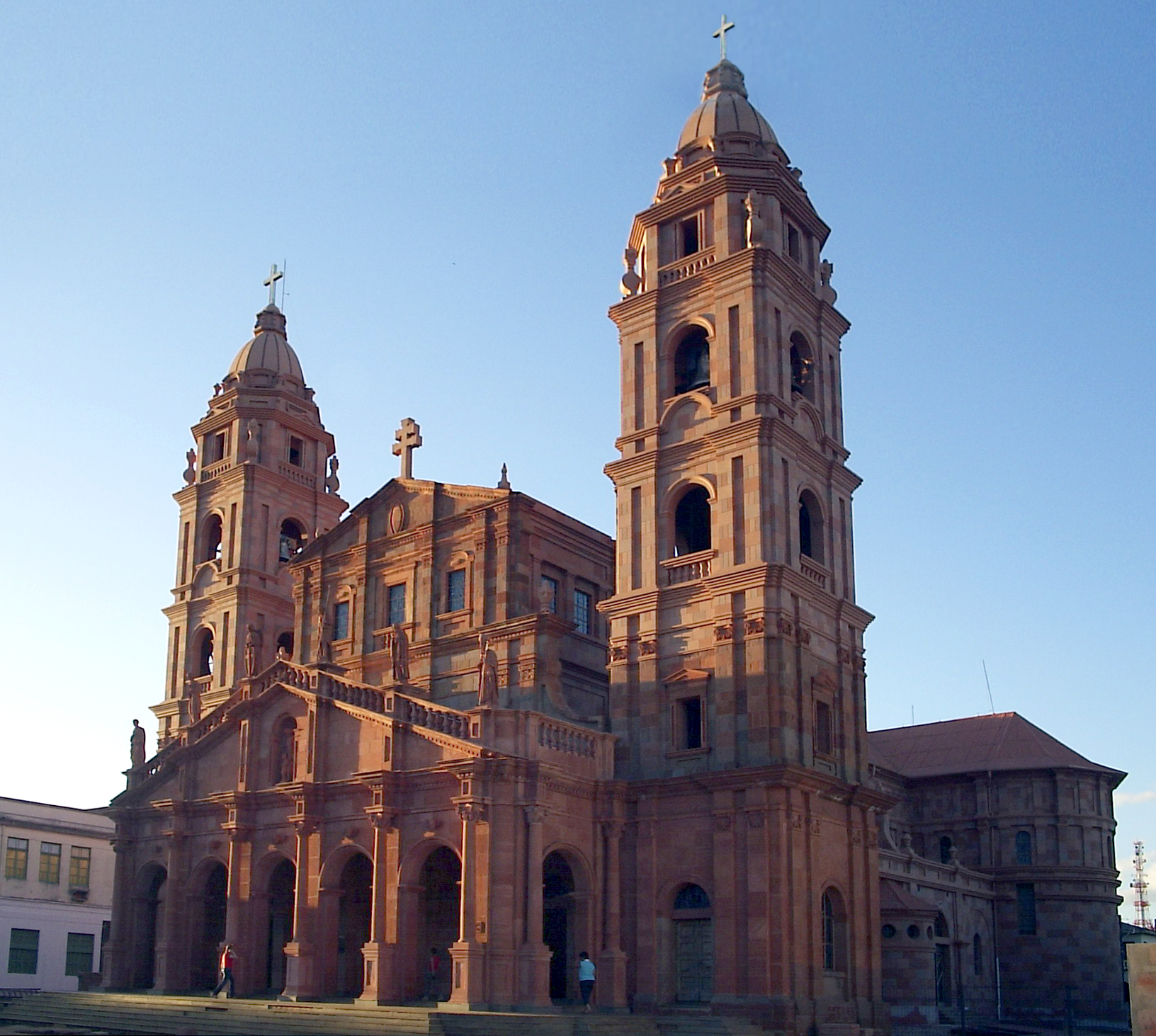 Depicted place: Guardian Angel Cathedral